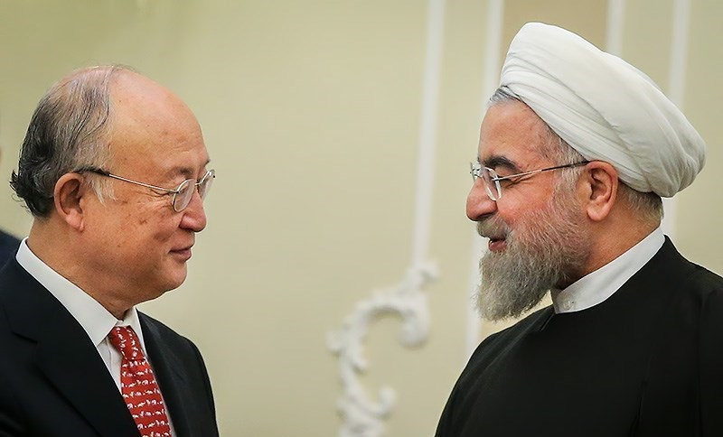 Iranian President, Hassan Rouhani meets Director General of the International Atomic Energy Agency, Yukiya Amani in Saadabad Palace, Tehran